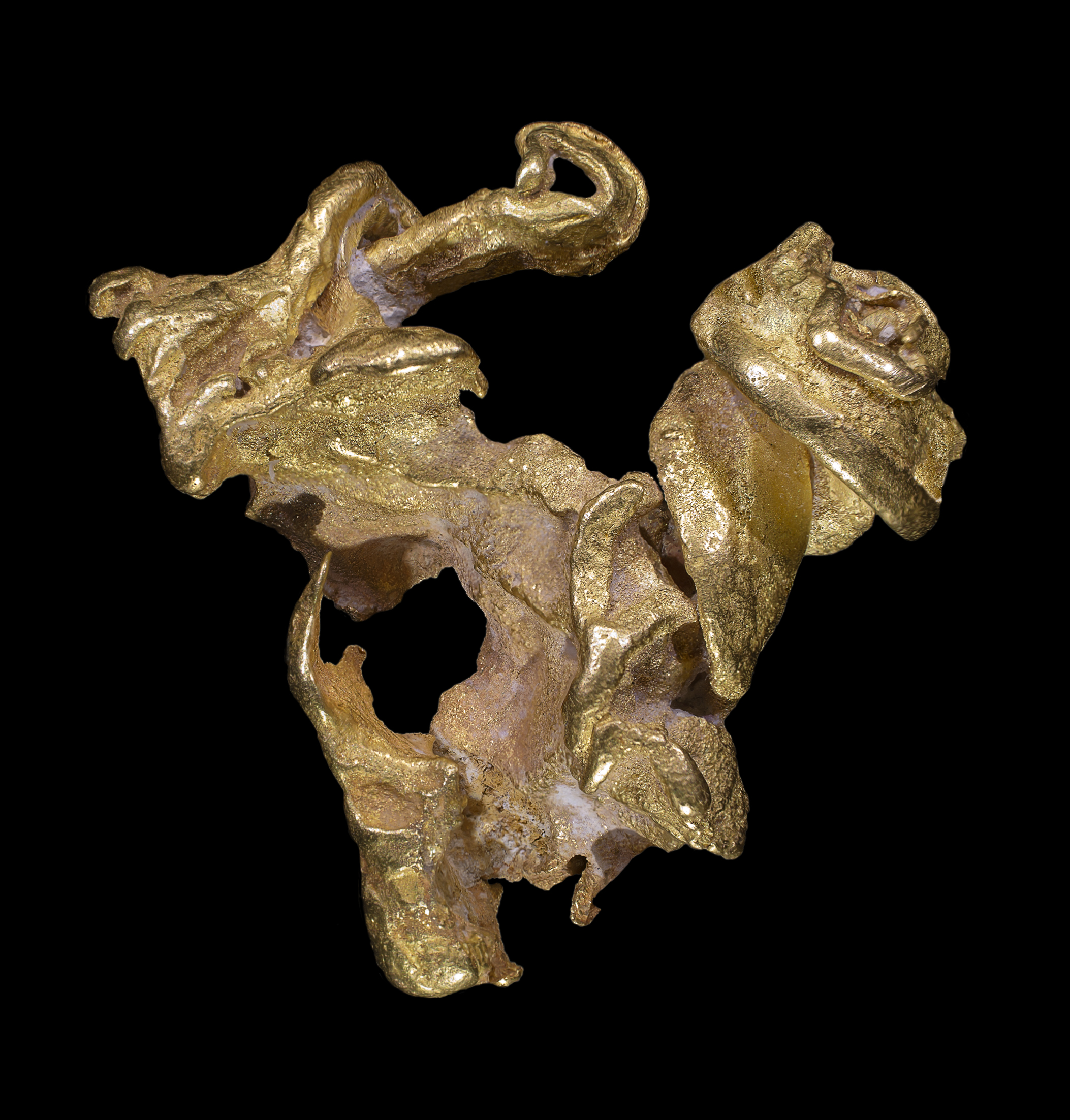 Native gold Locality: Mina Zapata, Santa Elena de Uairen, Bolívar, Venezuela Size: 3.46 x 3.12 x 1.79 cm.